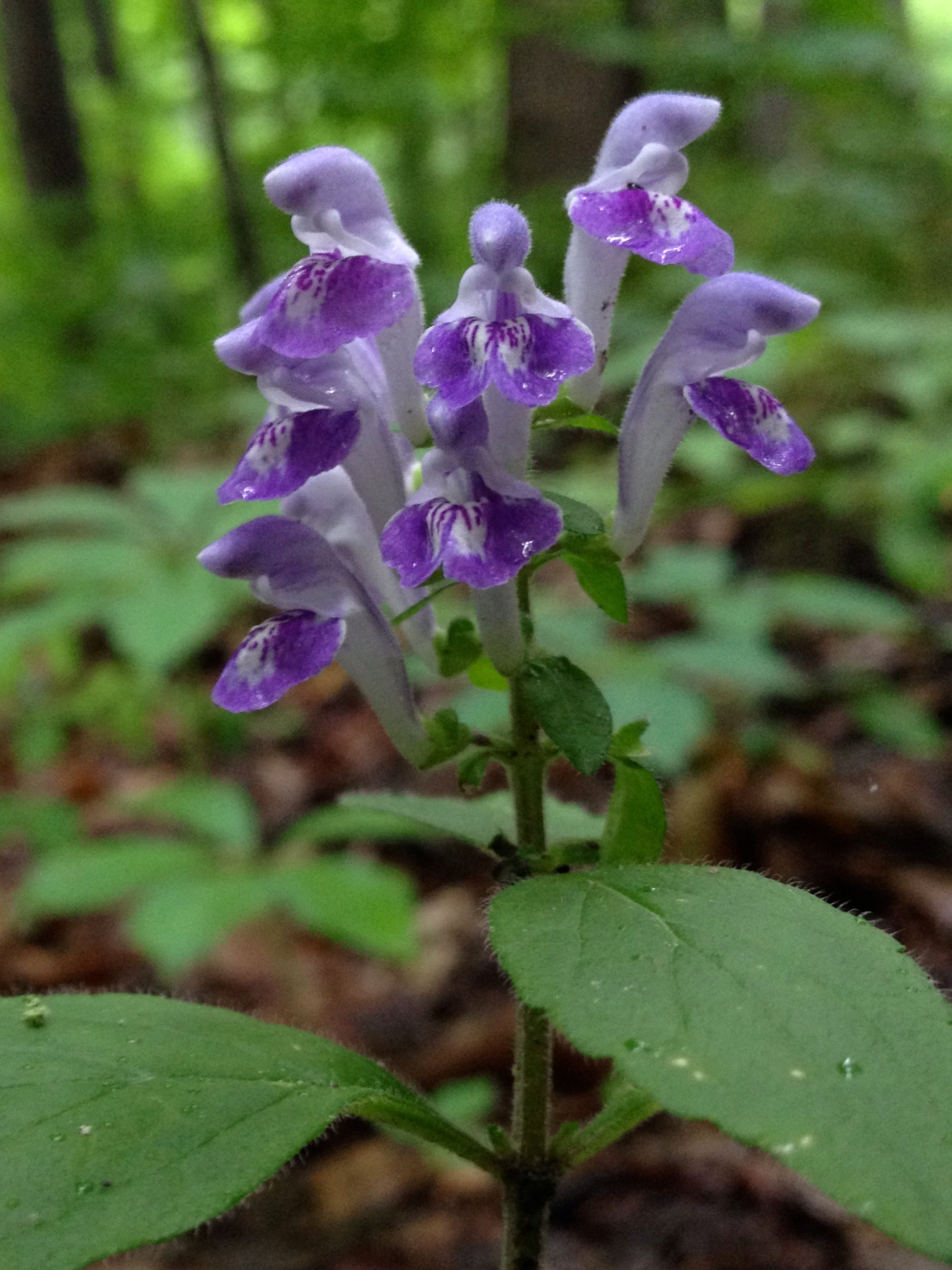 Rosaryville State Park, Maryland. After resting for most of the week, I was very happy to be able to lead some folks on a plant walk today, and this was one of the species we observed. It is not a new one for me, but it is the best photo I've taken so far of one of my favorites. As you may or may not be able to tell, I brought my iPhone 4S out of hibernation this week, so the color balance, saturation, and exposure on these more recent photos isn't messed up the way it is on the ones I took with the iPhone 5.